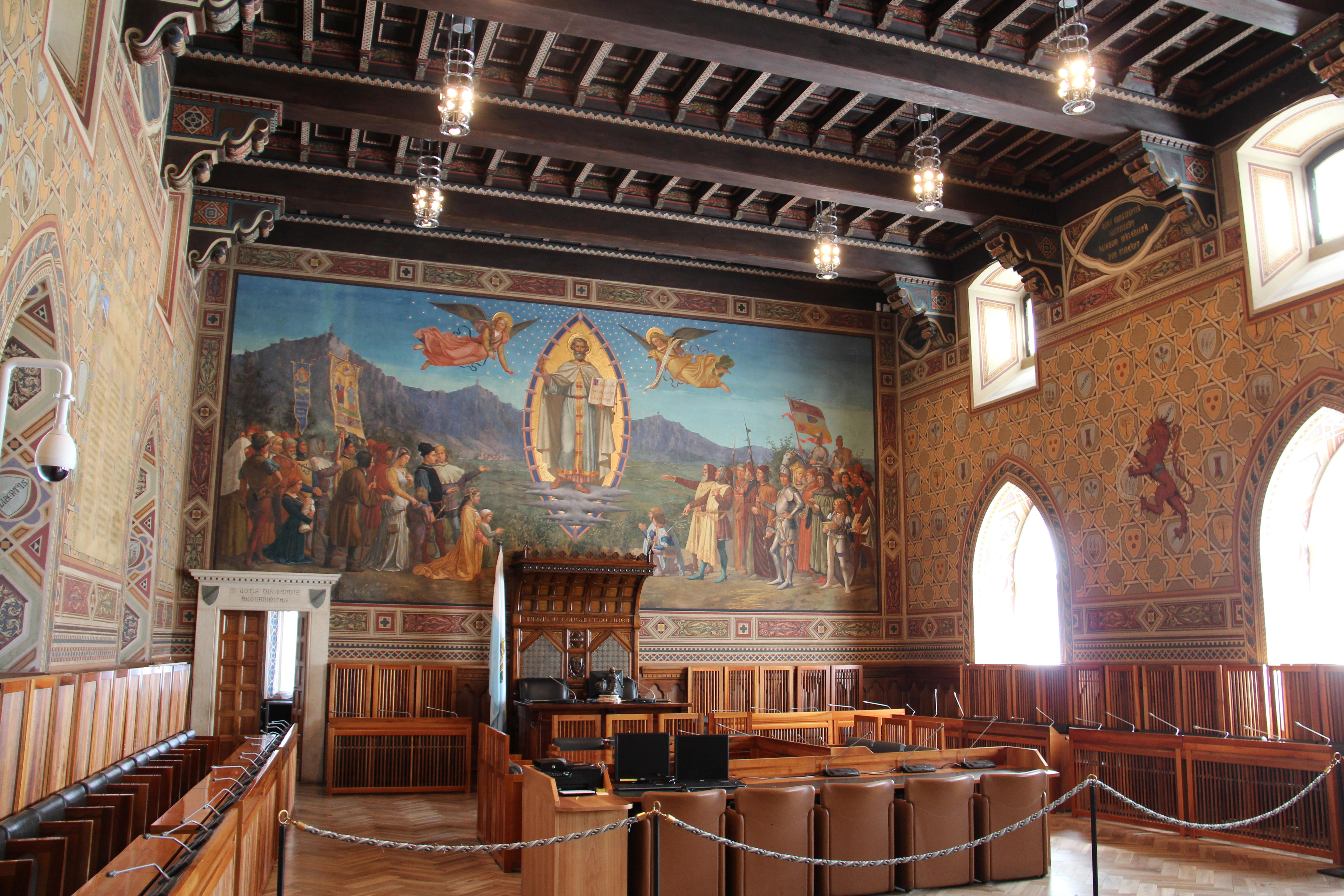 Chamber of the Grand and General Council of San Marino.